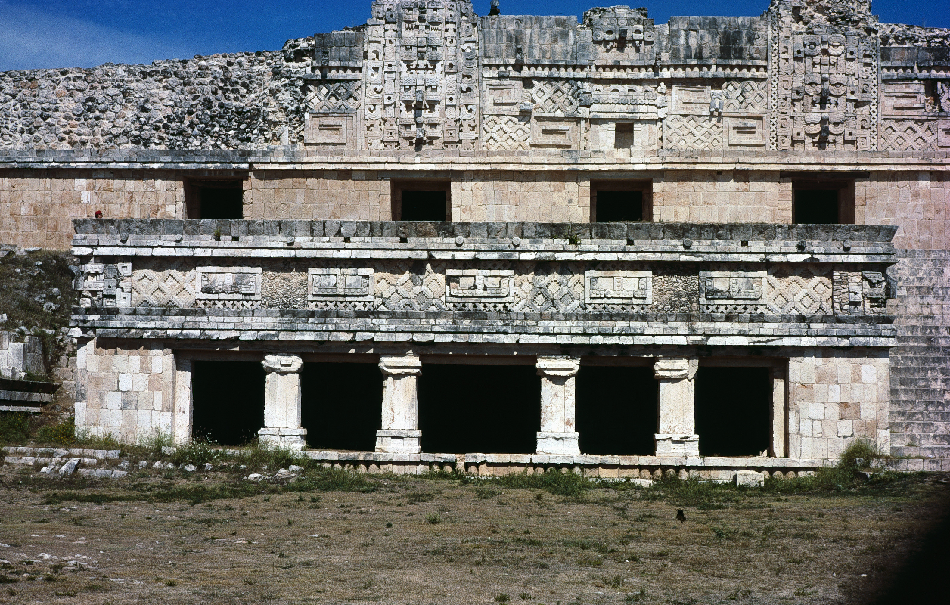 Uxmal, Yucatan, Mexico: Monjas, North building lower west building